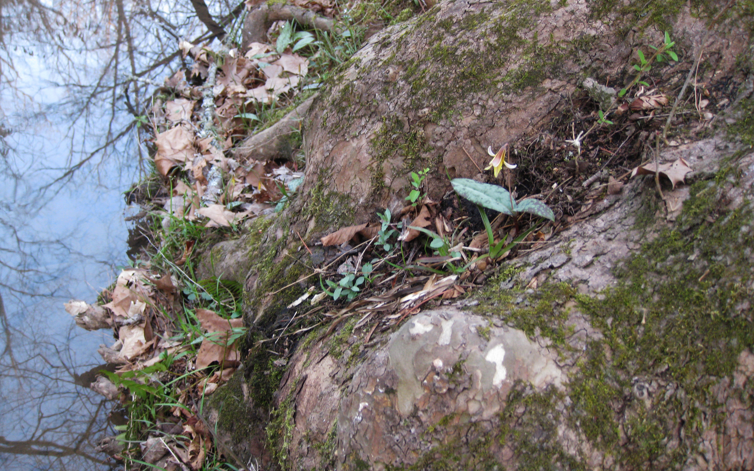 Erythronium americanum (trout lily; dogtooth violet) nestled in roots of big sycamore at stream edge. Duke Forest Korstian Division, Durham NC.